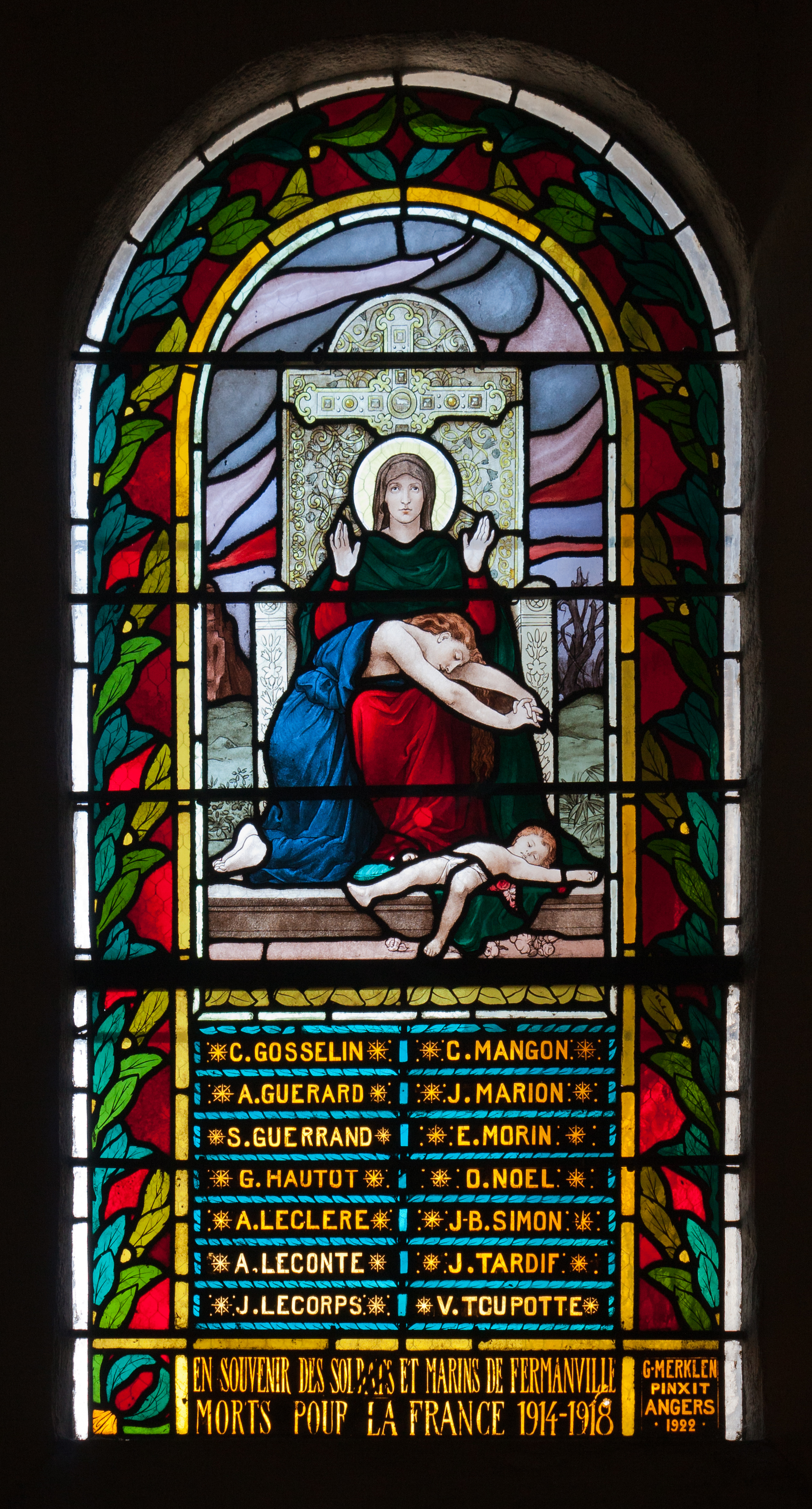 Third stained glass window of the north aisle of the nave, dedicated to the memory of French soldiers of Fermanville who were killed in action in the Great War 1914–1918. It is signed G. Merklen pinxit Angers 1922. The dedication reads: En souvenir des soldats et marins de Fermanville morts pour la France 1914–1918. Fourteen soldiers are named: C. Gosselin, A. Guerard, S. Guerrand, G. Hautot, A. Leclere, A. Leconte, J. Lecorps, J. Marion, E. Morin, D. Noel, J-B. Simon, J. Tardif, and V. Toupotte. The window depicting Our Lady of Consolation was created after the oil painting La vierge consolatrice by William-Adolphe Bouguereau (1825–1905). (See Philippe Chéron and Sophie Delauney, Vitraux de Normandie, une histoire de la Grande Guerre, ISBN 978-2-36219-150-3, pp. 19.) Georges Merklen (–1925) DescriptionFrench stained-glass artistDate of birth/death 2 April 1925 Work period1919–1925Work location Angers Authority control : Q45315820 creator QS:P170,Q45315820